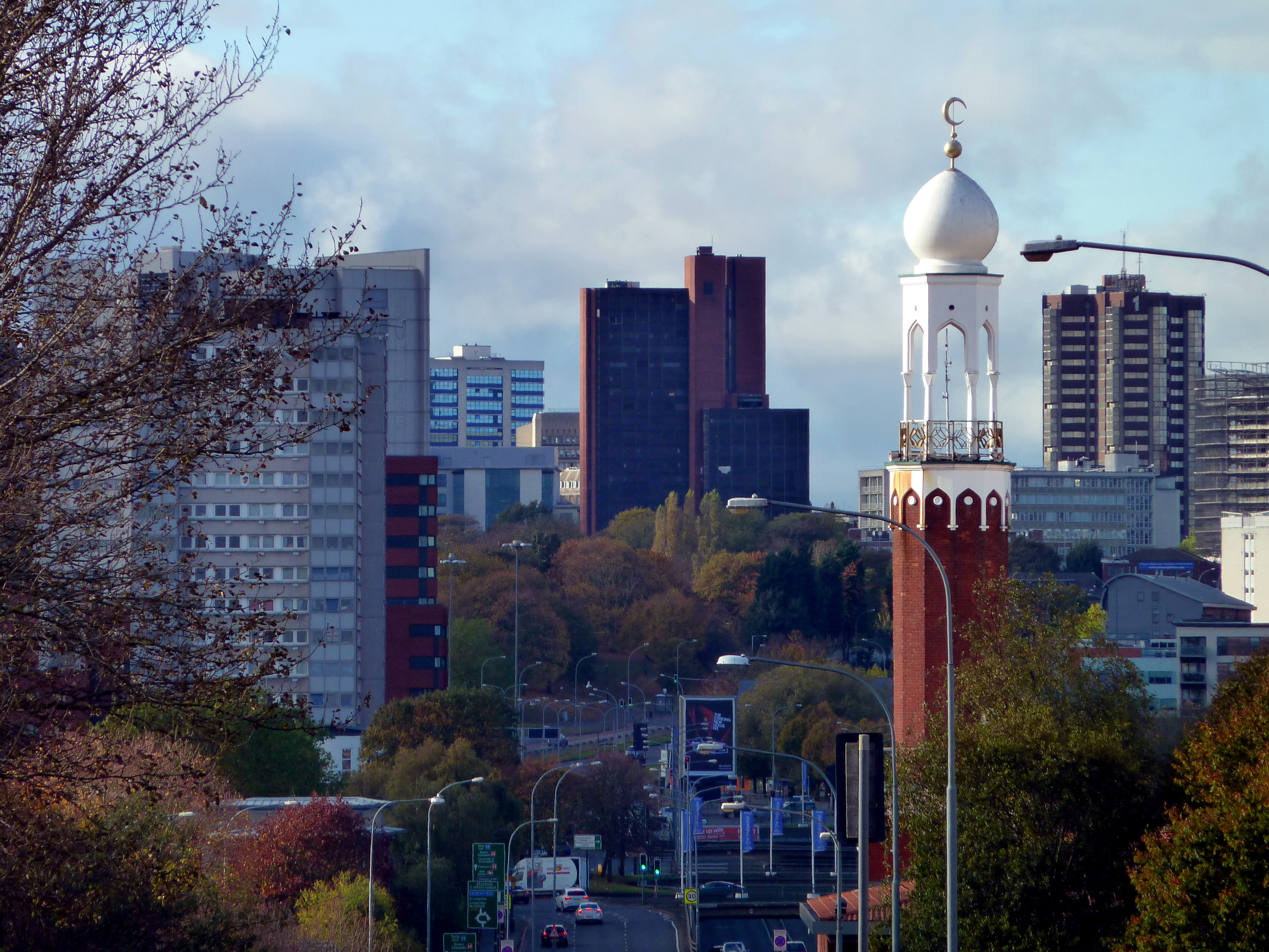 The minaret of Birmingham Central Mosque set against the skyline of the Five Ways district of Edgbaston, Birmingham